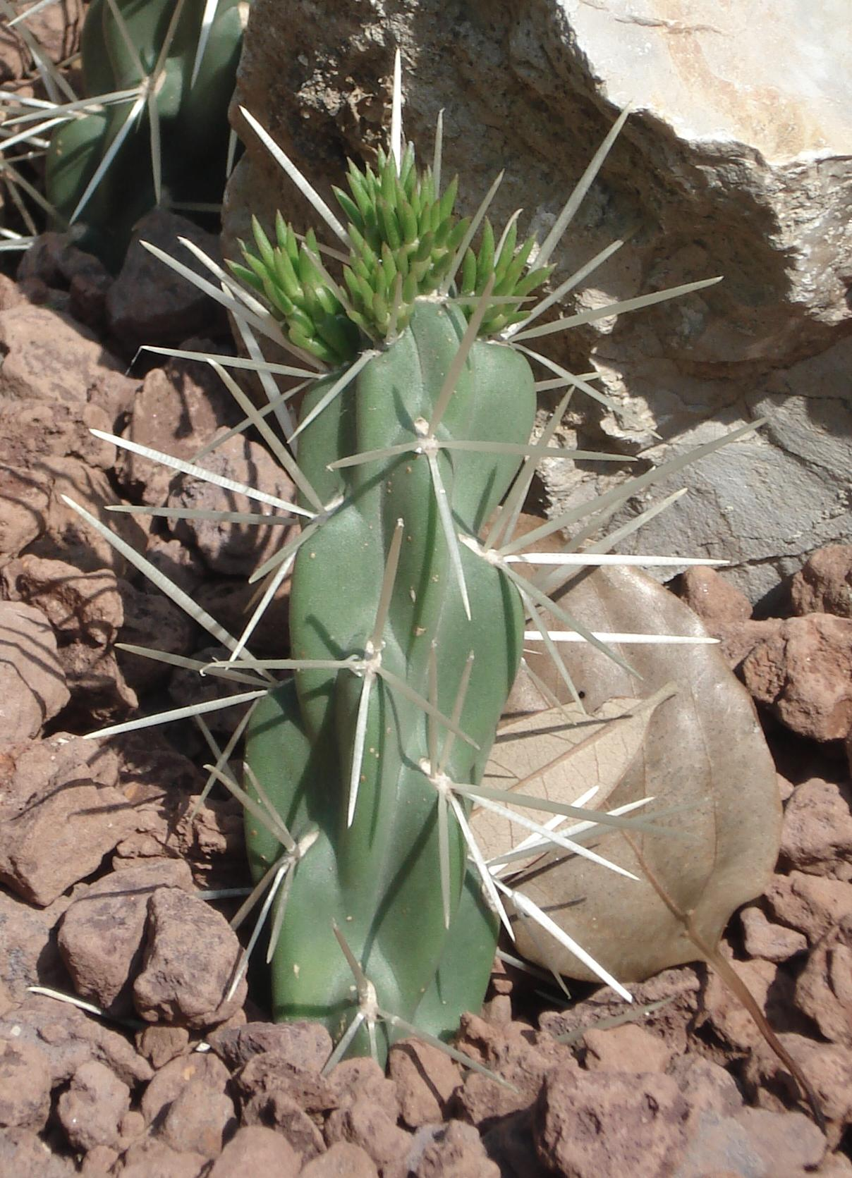 Opuntia recondita in the Orto botanico di Pisa (Pisa botanic garden), Italy. This plant is also present here.